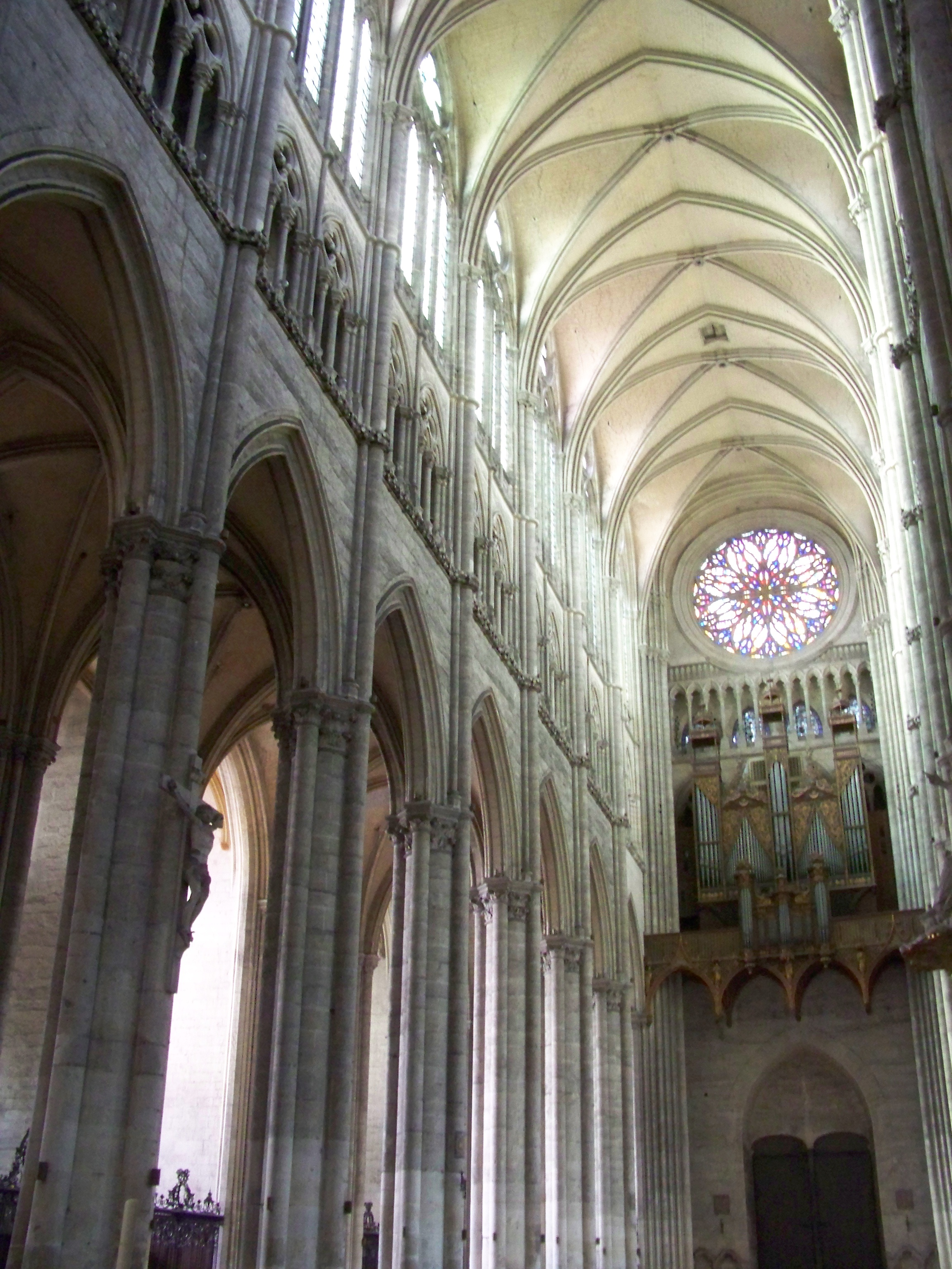 Vaults, nave, western rose window and organ of the Cathedral of Our Lady of Amiens (Amiens Cathedral) in Amiens, France.